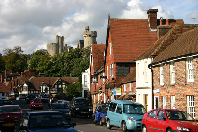 Picture of Arundel in West Sussex Photo taken by Anders Almaas